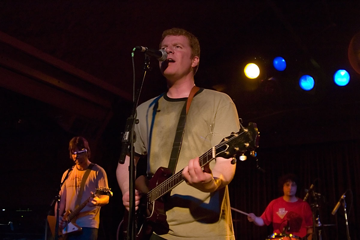 The New Pornographers at the Belly Up.